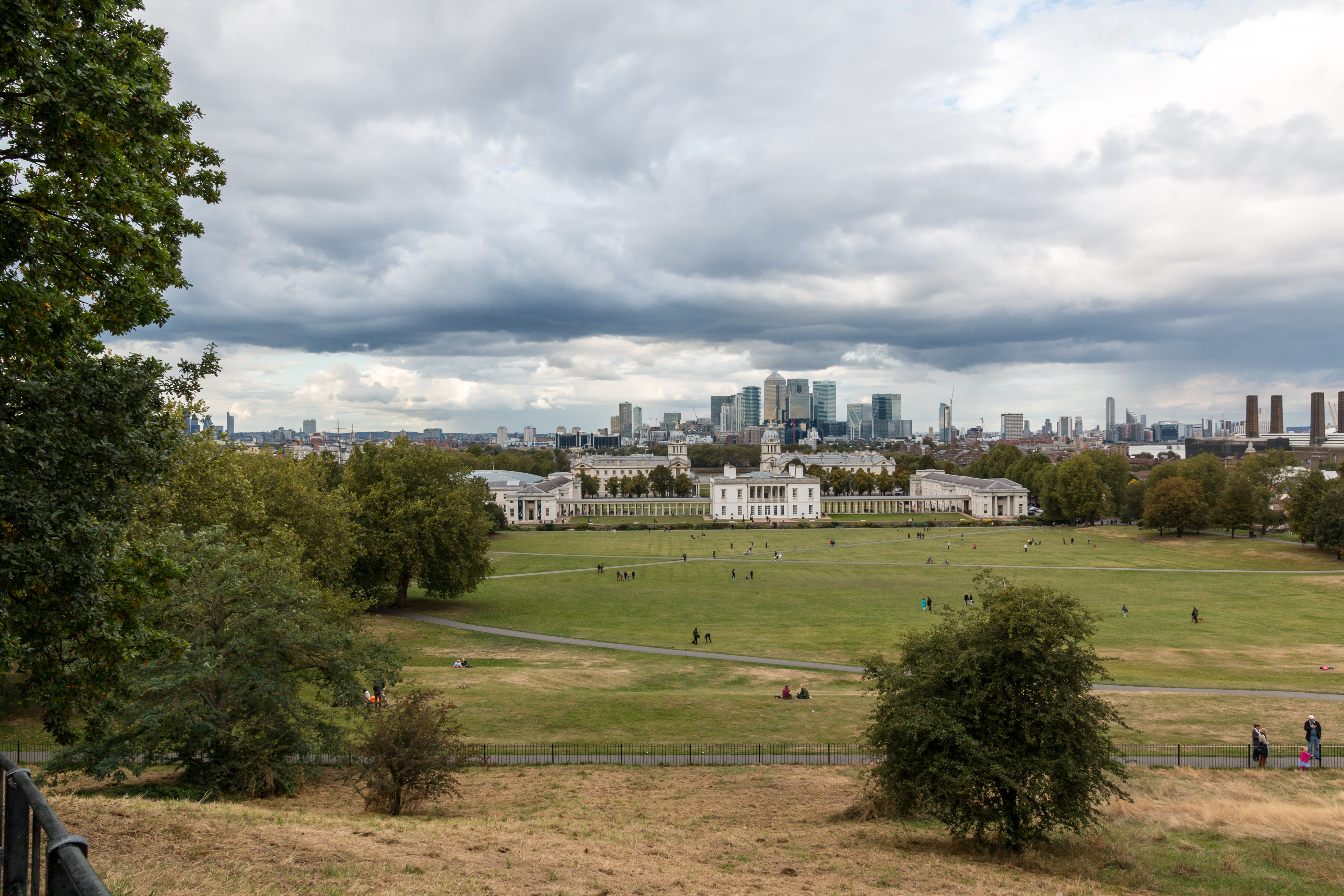 View from Royal Observatory, Greenwich, London, England, United Kingdom